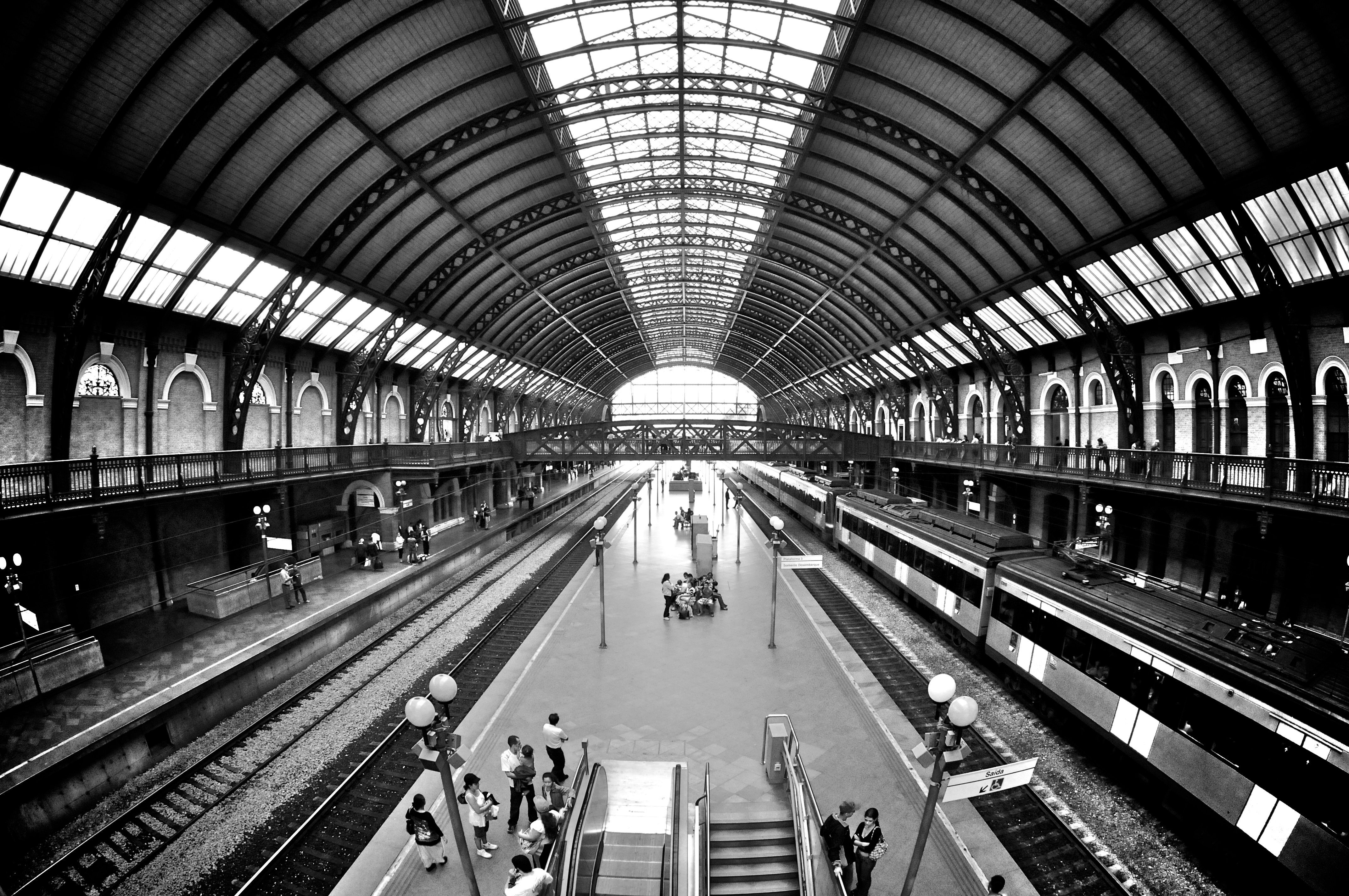 Luz Station in B&W, São Paulo, SP, Brazil